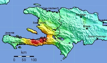 Shake map of 2010 Haiti earthquake